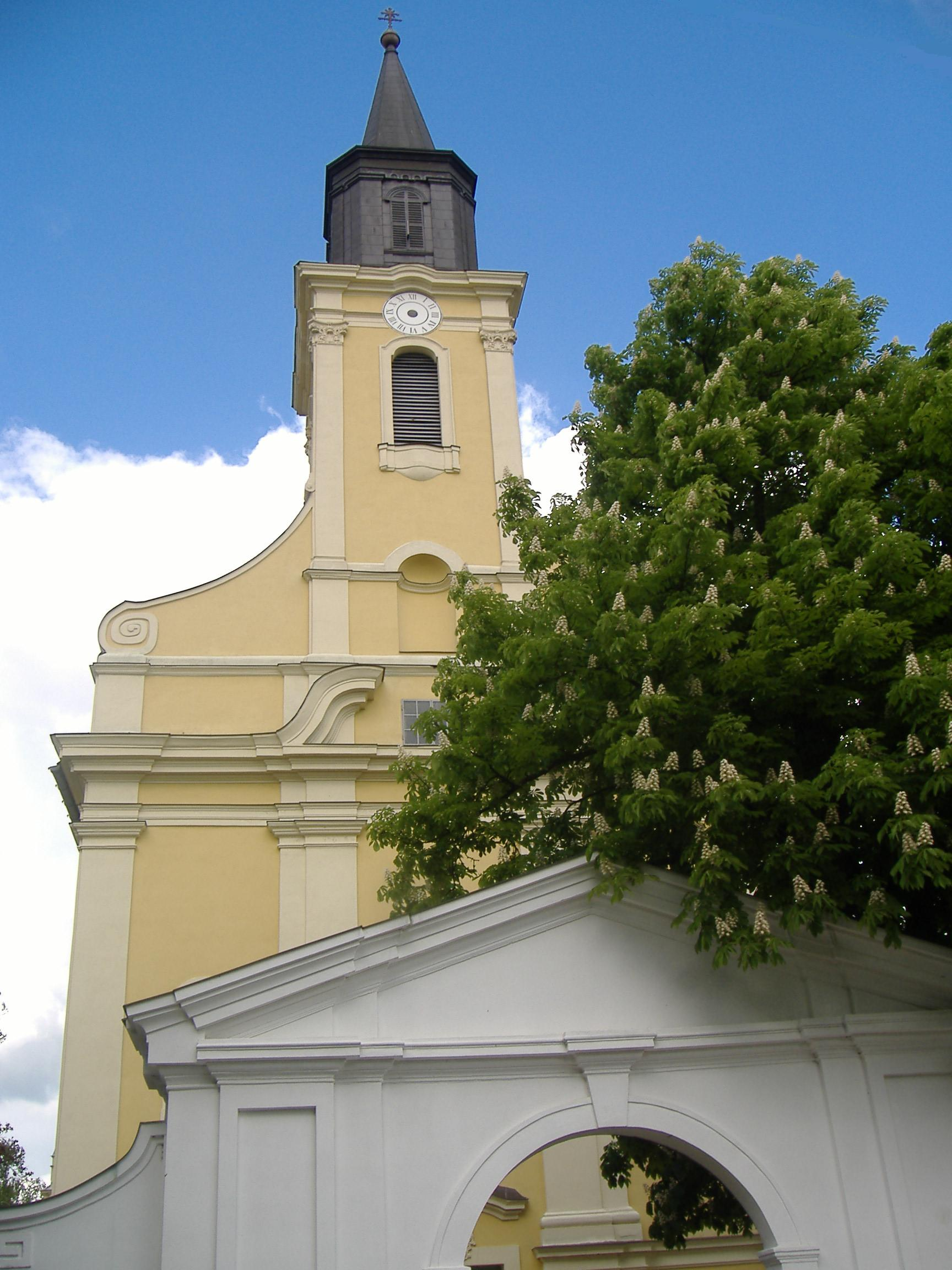 The Saint Stephen Parish Church in Makó, Hungary.